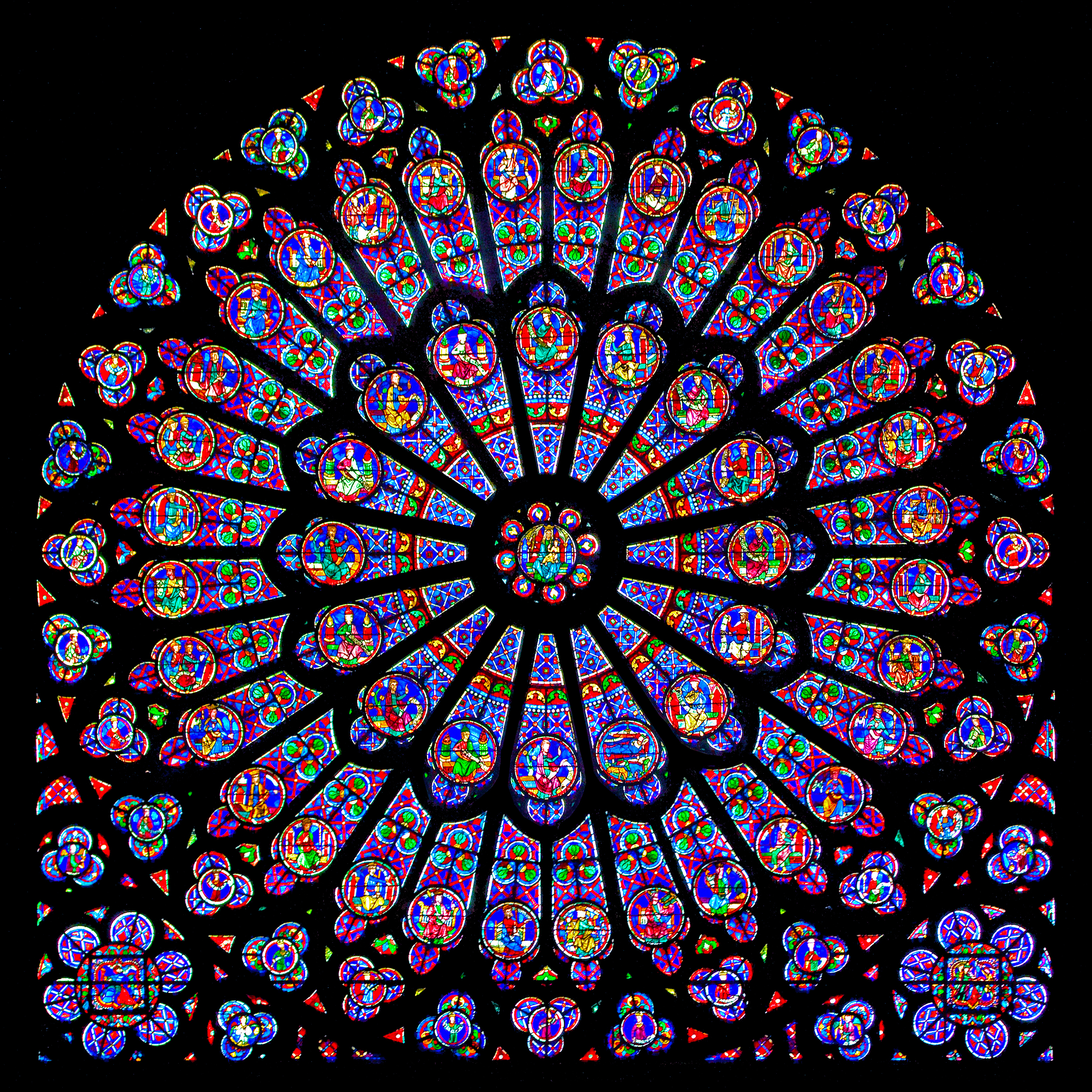 Rayonnant Gothic rose window (north transept), Notre-Dame de Paris Cathedral